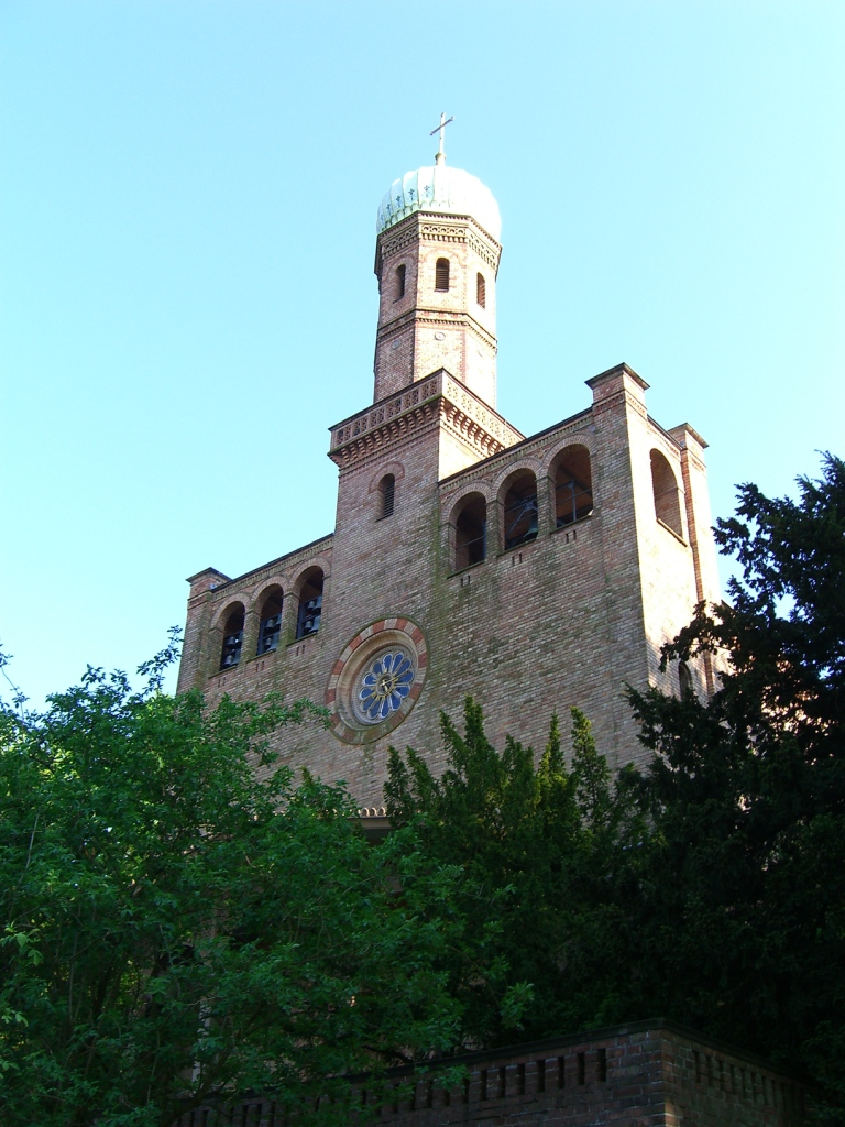 "Church St. Peter and Paul" in Berlin-Nikolskoje at the river "Havel"